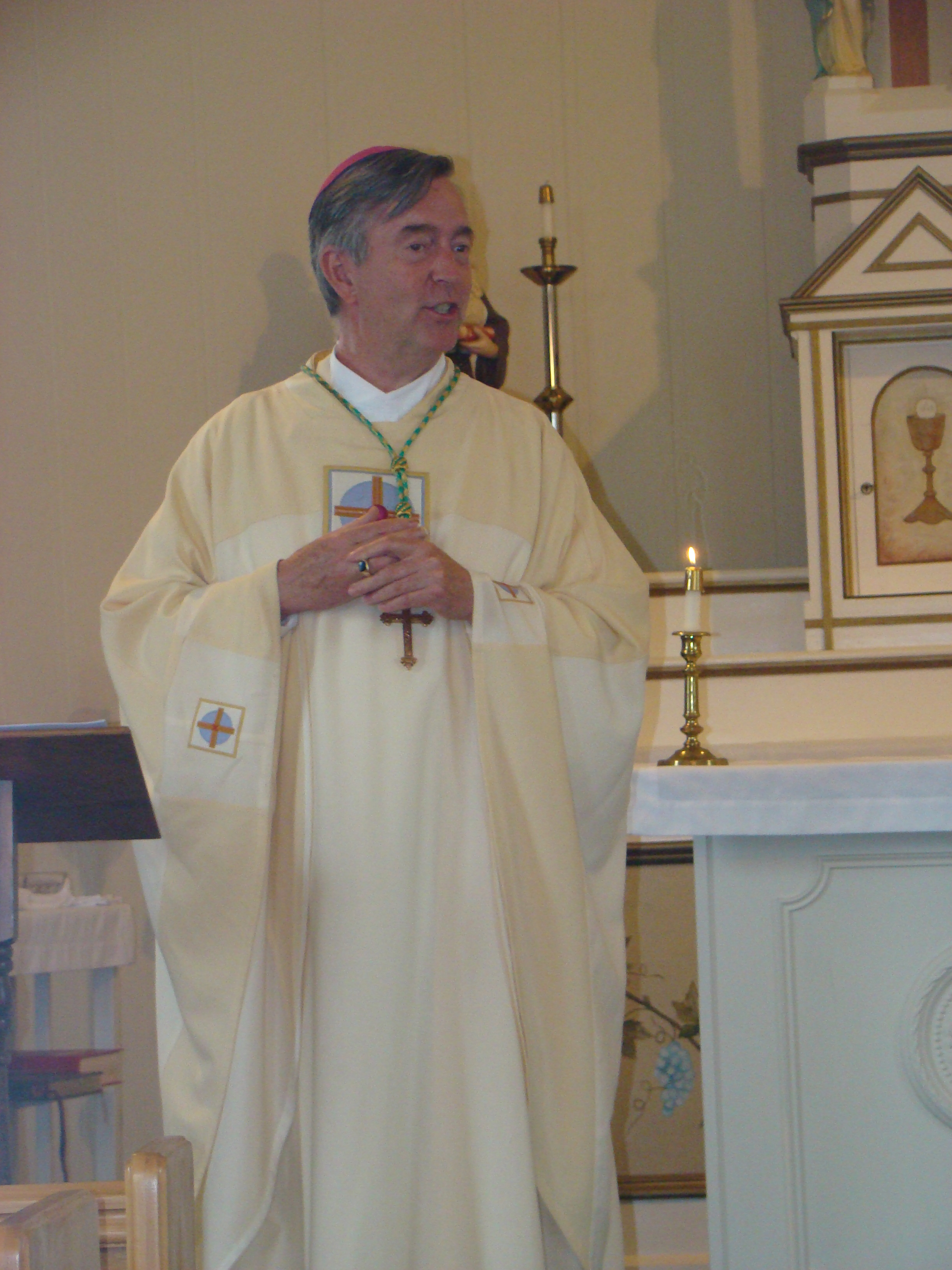 Photograph of Peter F. Christensen, a Catholic Bishop.